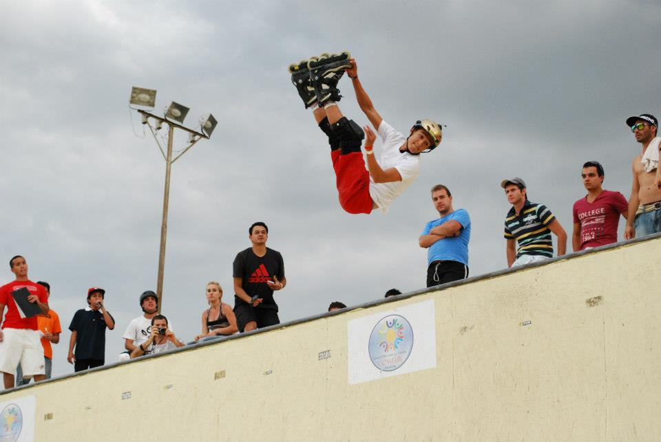 Nicolas Calderon vert skating